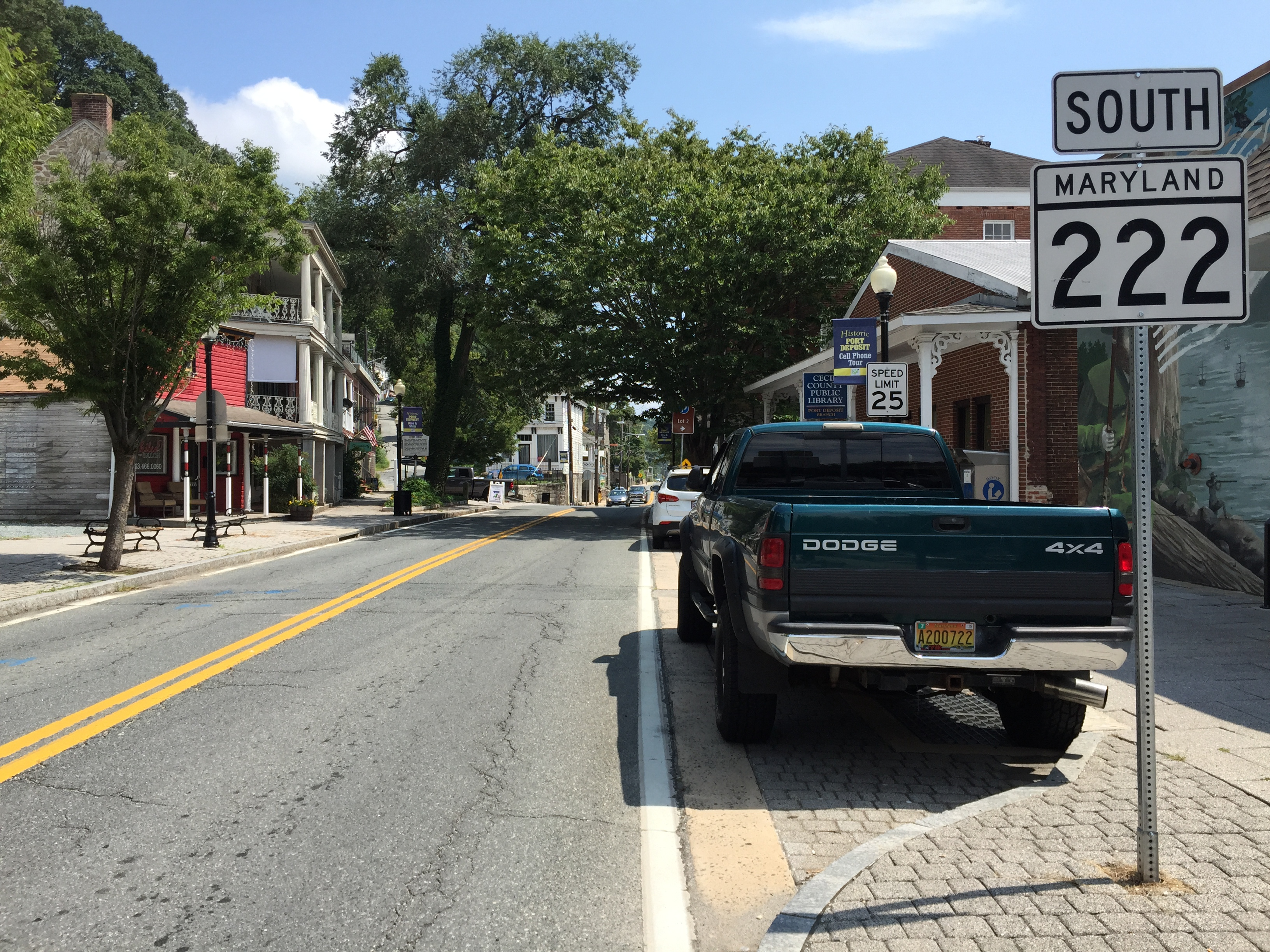 View south along Maryland State Route 222 (Main Street) at Maryland State Route 276 (Jacob Tome Memorial Highway) in Port Deposit, Cecil County, Maryland